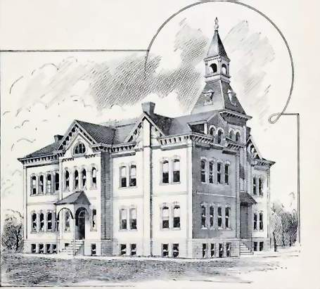 Illustration of the Brunswick, Missouri school building from the late 1880s. This illustration was created and first published in 1896, thus it is now public domain and free to use.